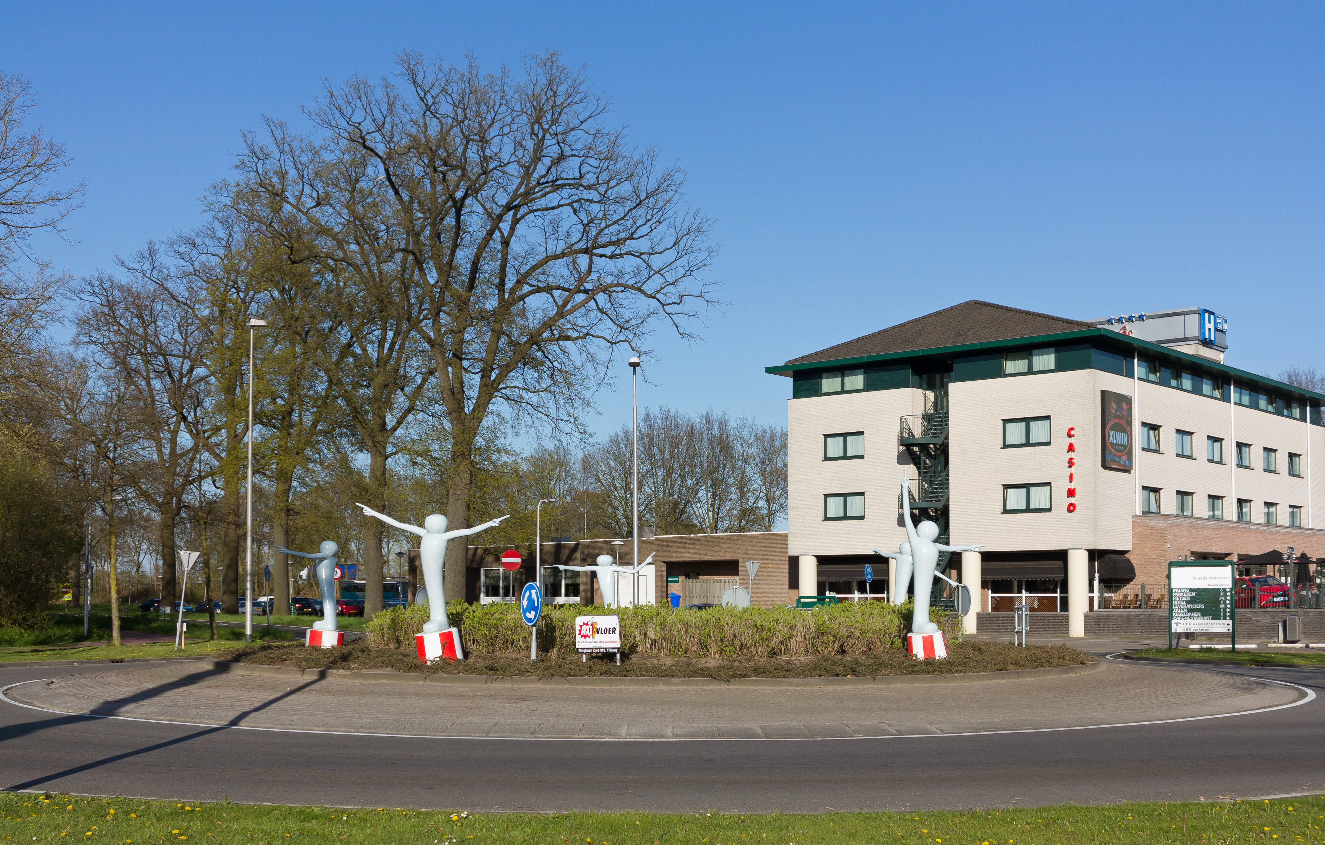 Berkel Enschot, roundabout at de Puccinilaan